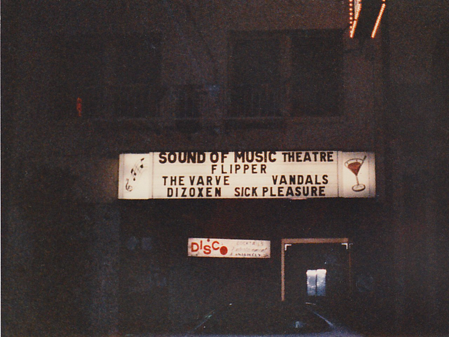 The Sound of Music was a dive bar and punk-rock club located in San Francisco's Tenderloin District. Local bands, including Flipper, played there from 1980 to 1987.